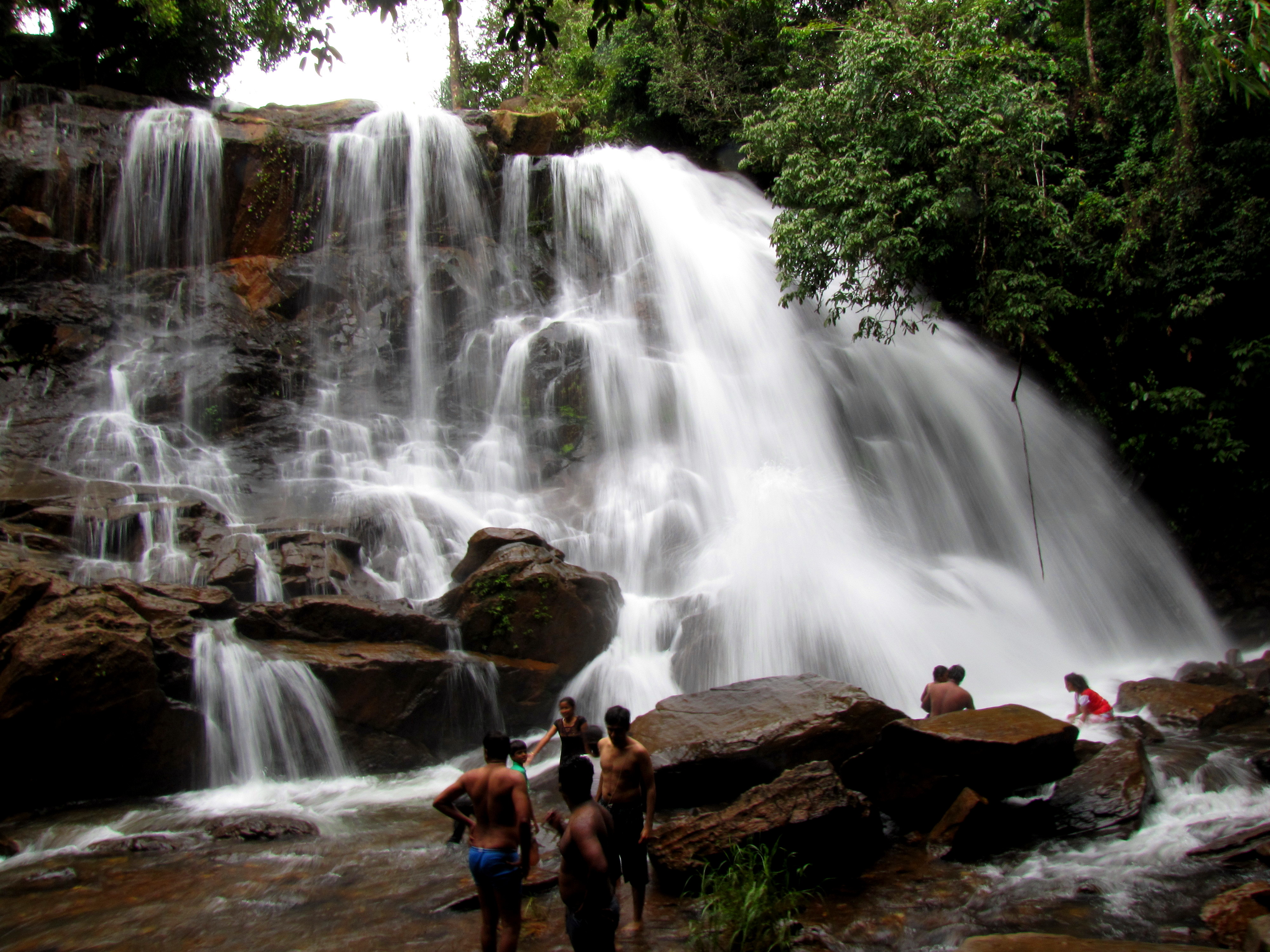 Srimane Falls, Sringeri. It is 14km away from Sringeri on the way to Mangalore